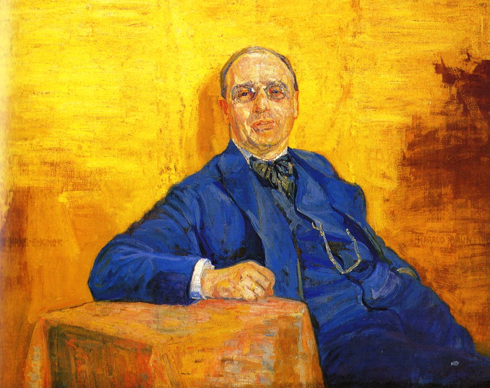 Portrait of norwegian author Hans E. Kinck